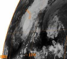 Hurricane Emila approaches Hawaii.